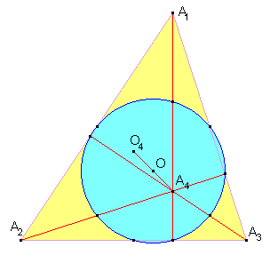 The nine-point circle of an orthocentric system